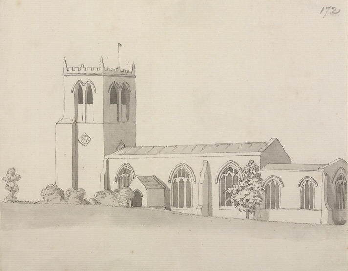 St Mary's parish church, Cuckney, Nottinghamshire, seen from the southeast